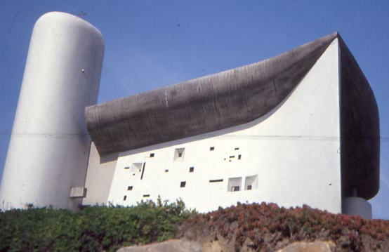 model of Notre Dame du Haut de le Corbusier in Mini-Europe, Brussels